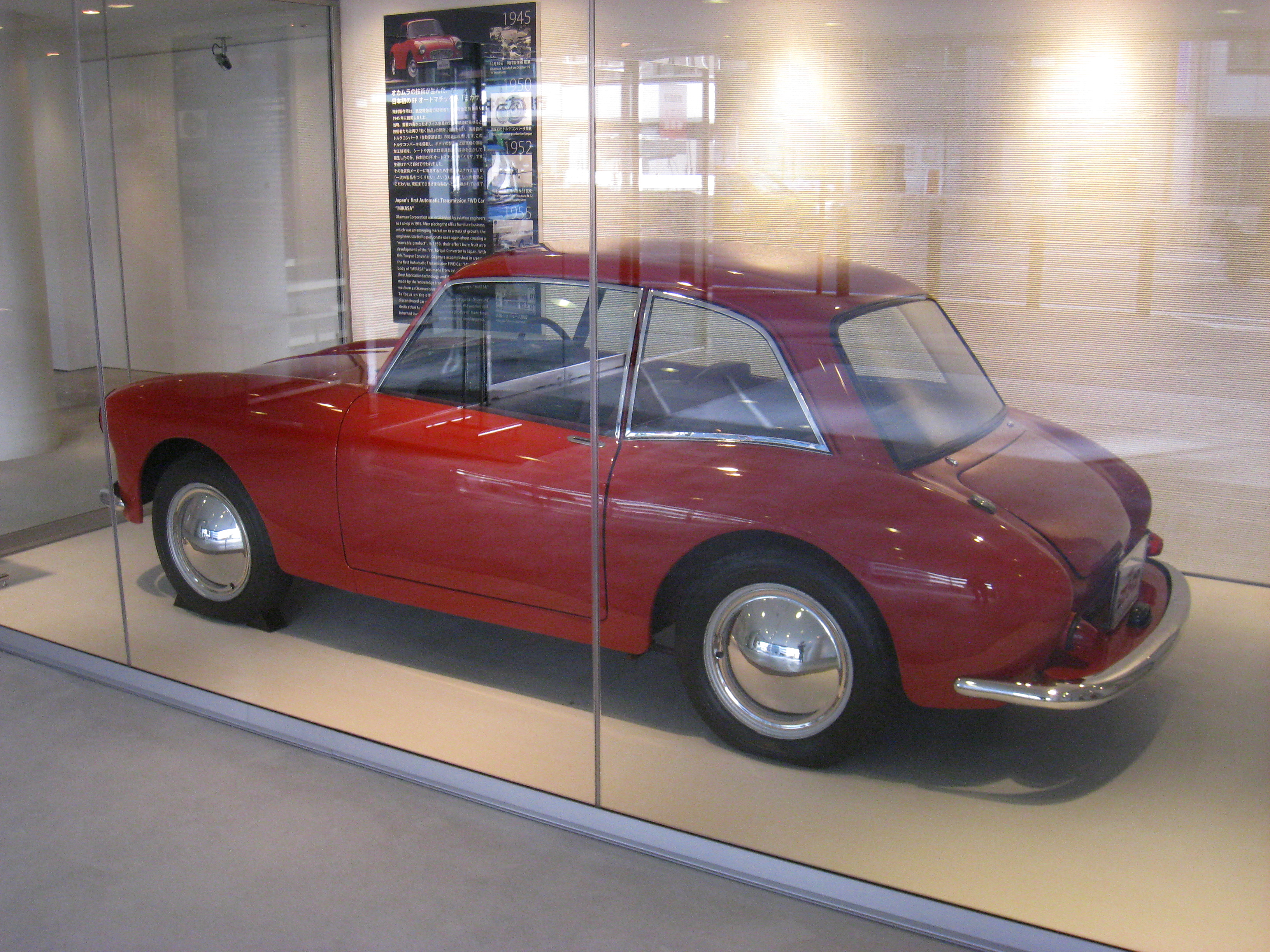 Okamura Mikasa, Okamura building, Tokyo, Japan.